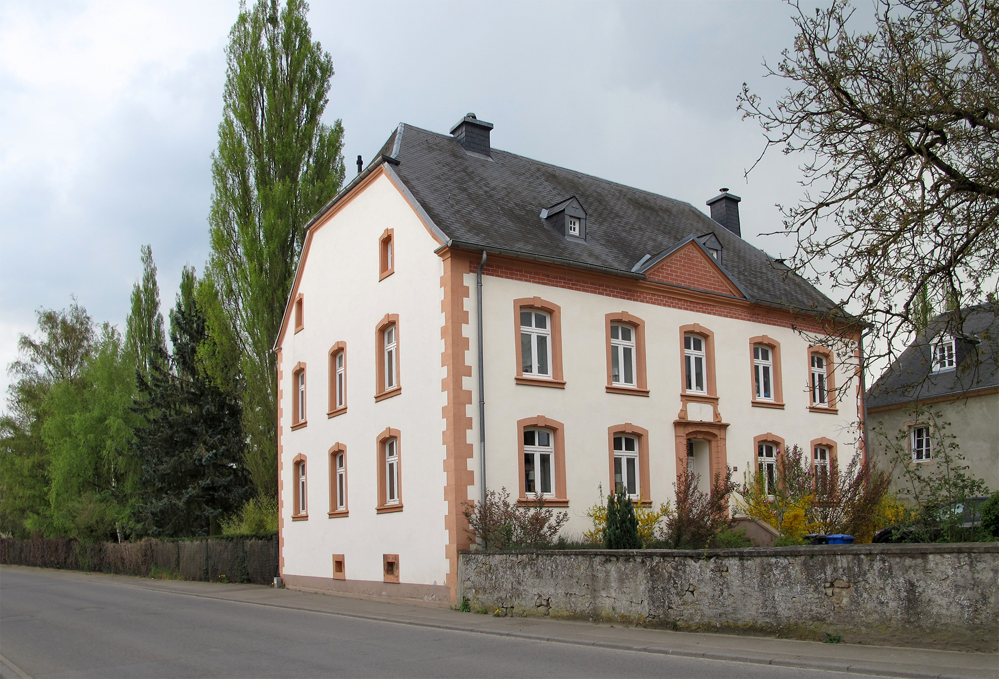 Building in Reckange, 54 rue Principale